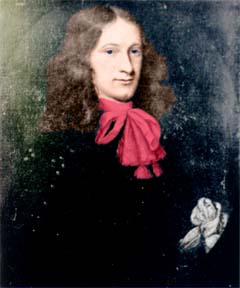 Painting of Wilhelmus Beekman